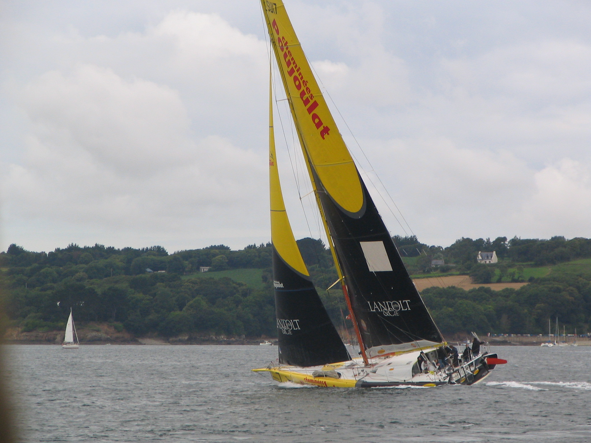 IMOCA sailboat Cheminées Poujoulat at Brest 2008.